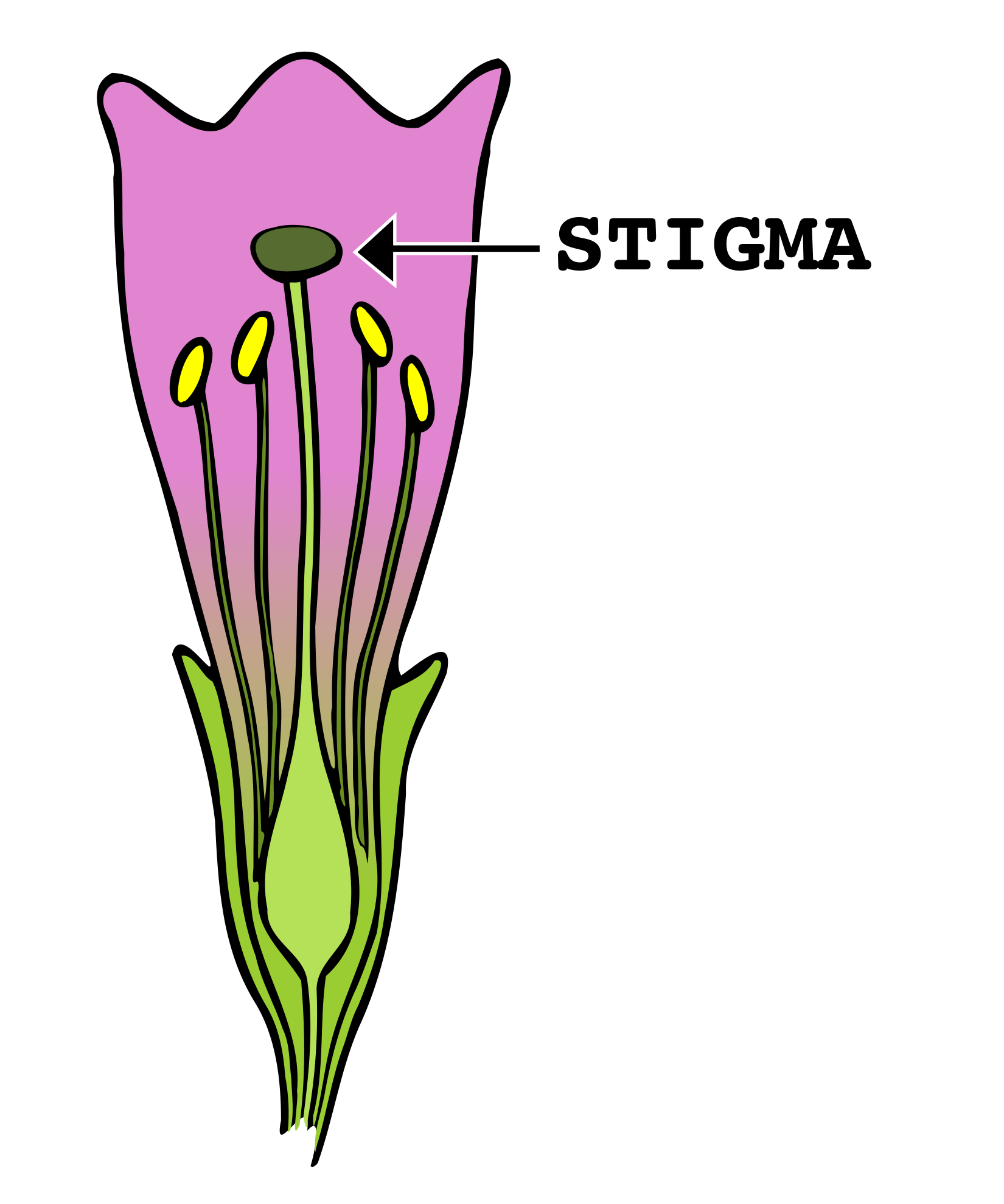 Floral diagram showing stigma